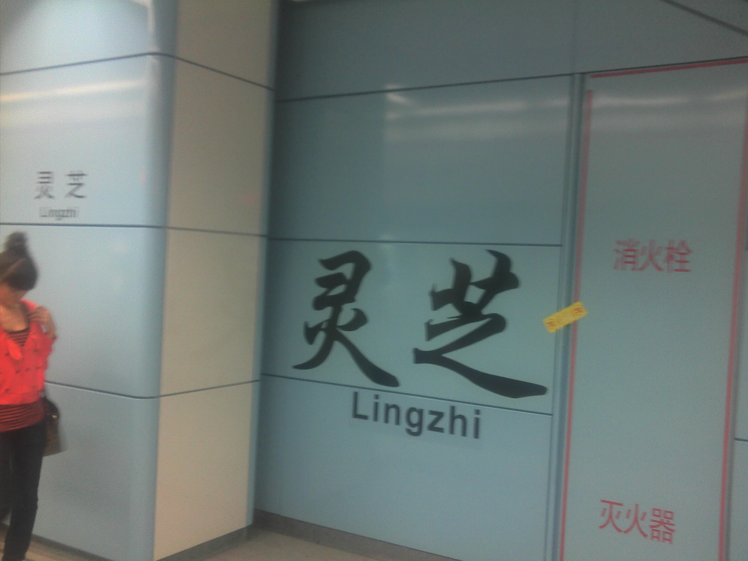 This photo was taken as Nov 19, 2011.